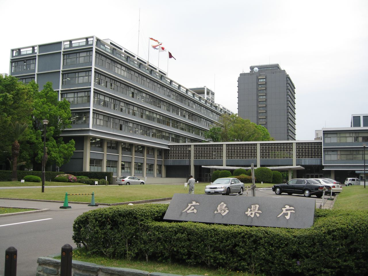 Hiroshima-Pref-Main-Office 広島県本庁舎を西側から撮影